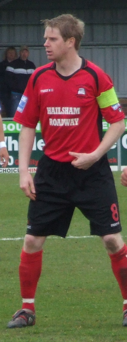 Paul Armstrong, captain of Eastbourne Borough football club